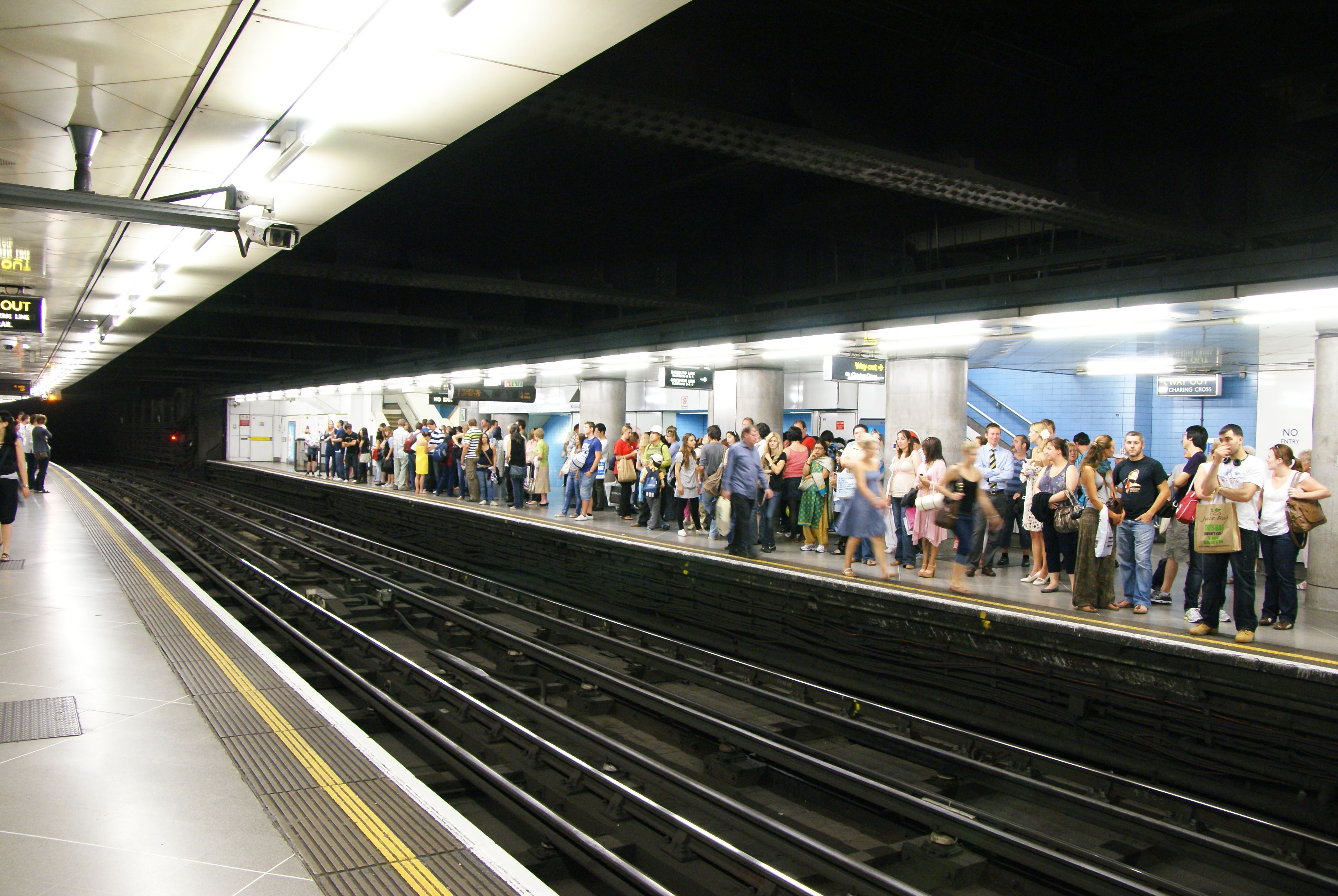 Locations per descriptor. Bloody hot and bloody busy!